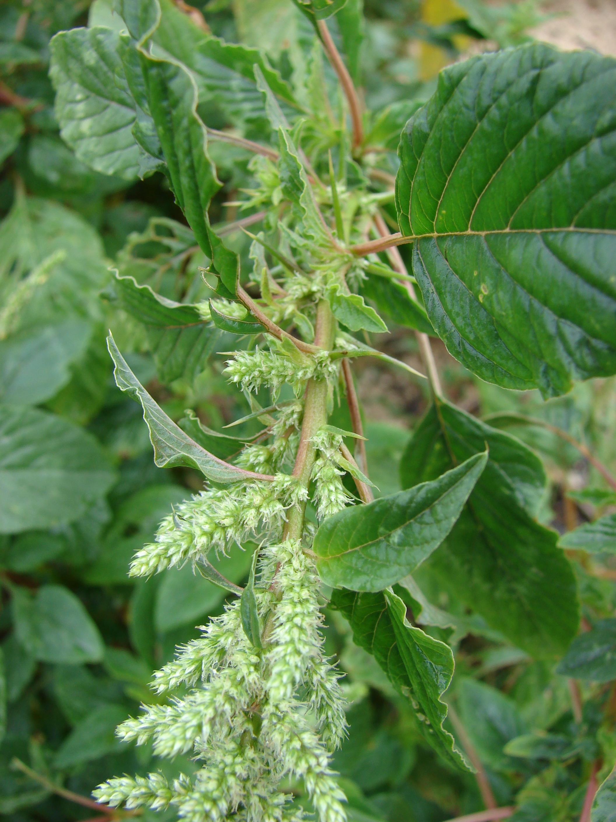 Amaranthus spinosus (spines and seeds). Location: Midway Atoll, Medical clinic Sand Island